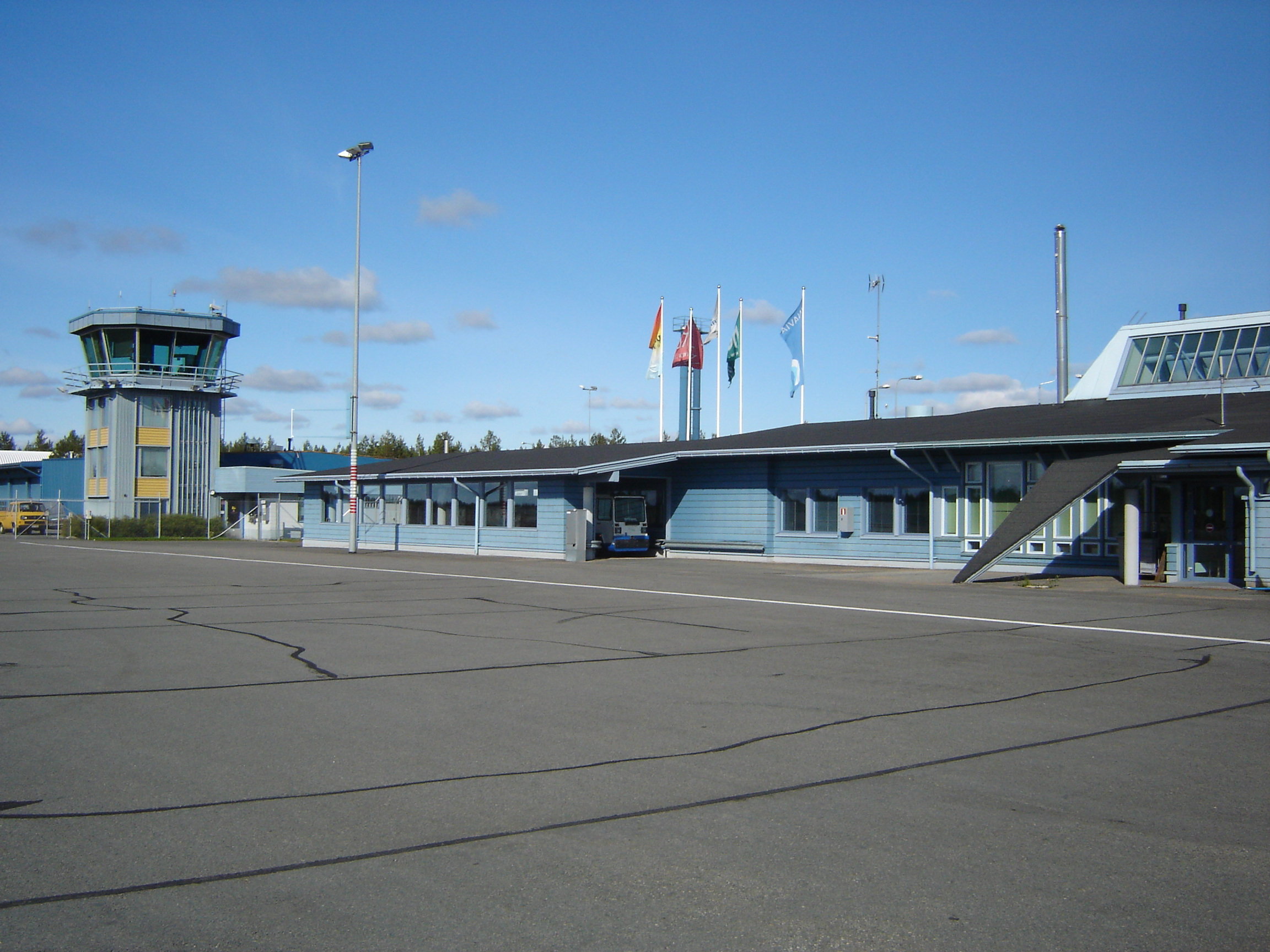 Kuusamo Airport Terminal, in Kuusamo, Finland, before the expansio of 2008–2009.